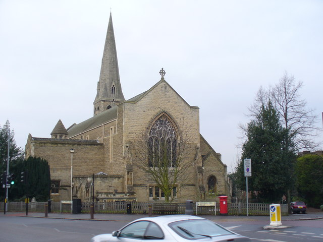 St Mark's Church Landmark Surbiton church at the corner of Church and St Mark's Hills.